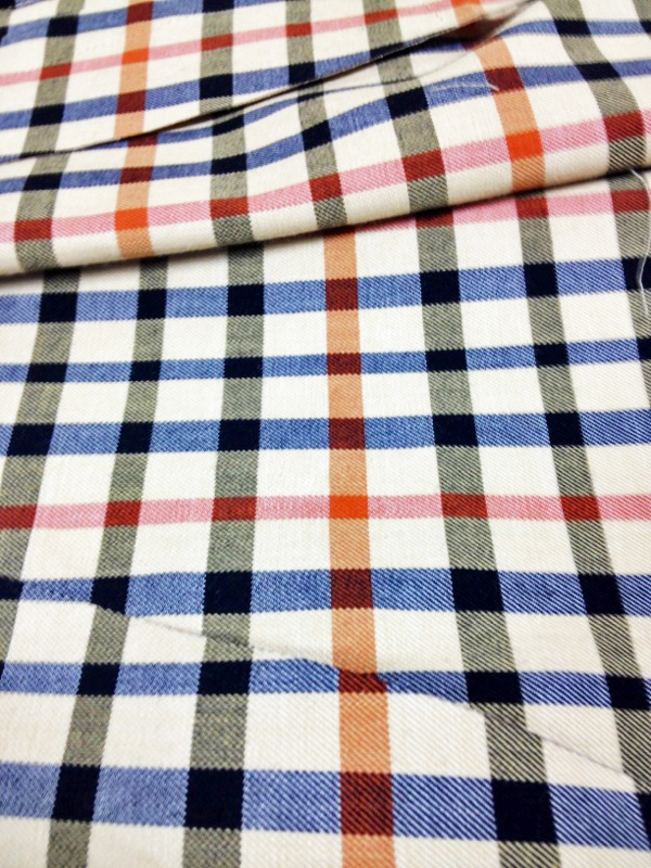 Photo of the classic DAKS house check fabric